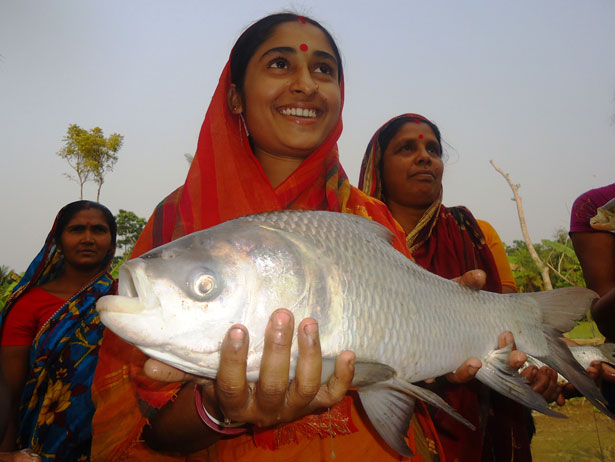 In Bangladesh Women are accessing into promotion and development of HH aquaculture-horticulture system.